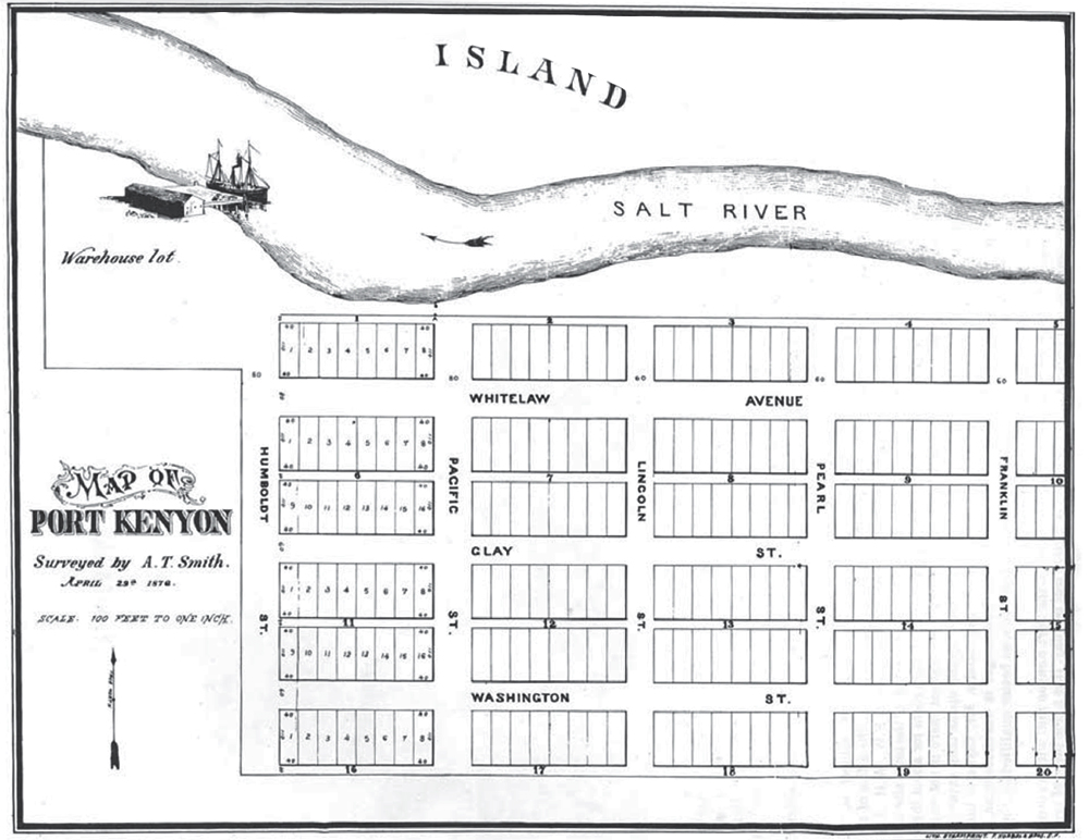 A plat-map of the proposed town of Port Kenyon, California of which only a small portion was ever built. The Salt River flows from right (east) to left (west) in this image. The map was entered as a map to lay out streets with the Humboldt County Recorder of Deeds office on May 23, 1876.